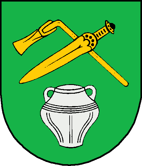 Coat of arms of the municipality Vaale in Schleswig-Holstein, Germany.